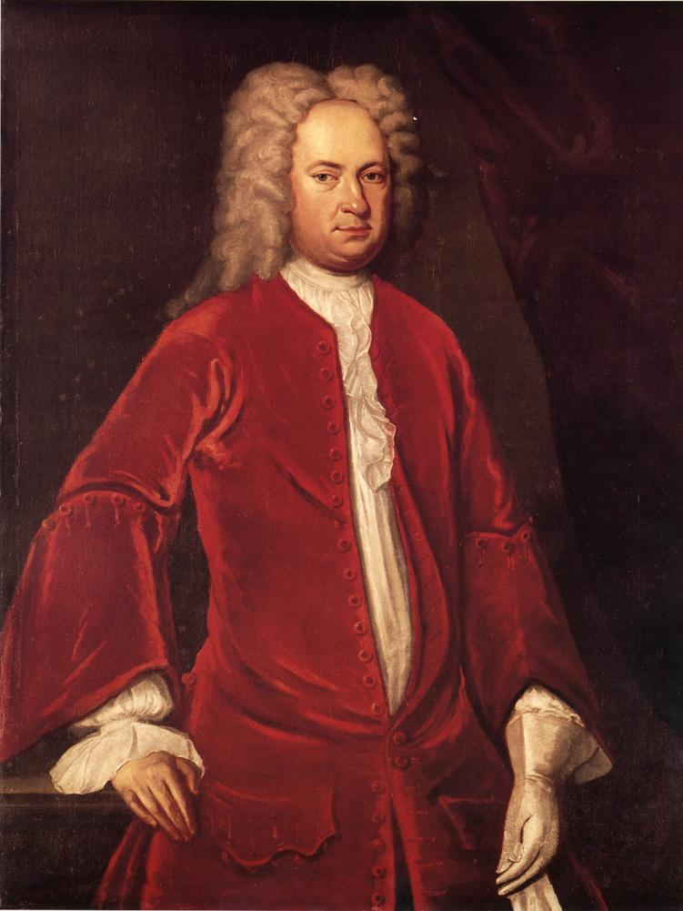 Portrait of Mann Page II of Rosewell Plantation, Gloucester County, Virginia